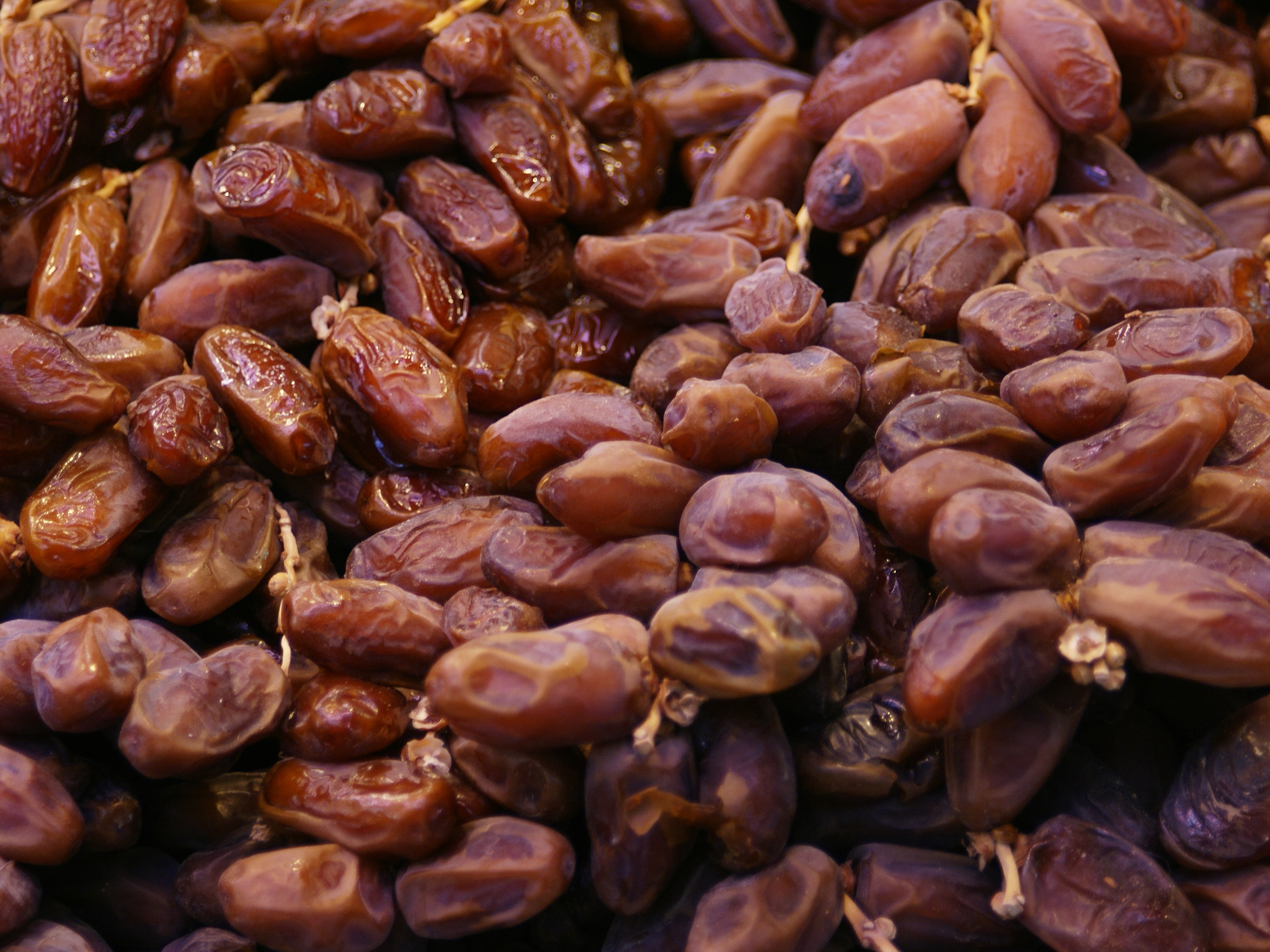 Dates at the Mercat Central de València, Spain